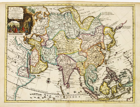 Historical map of Asia